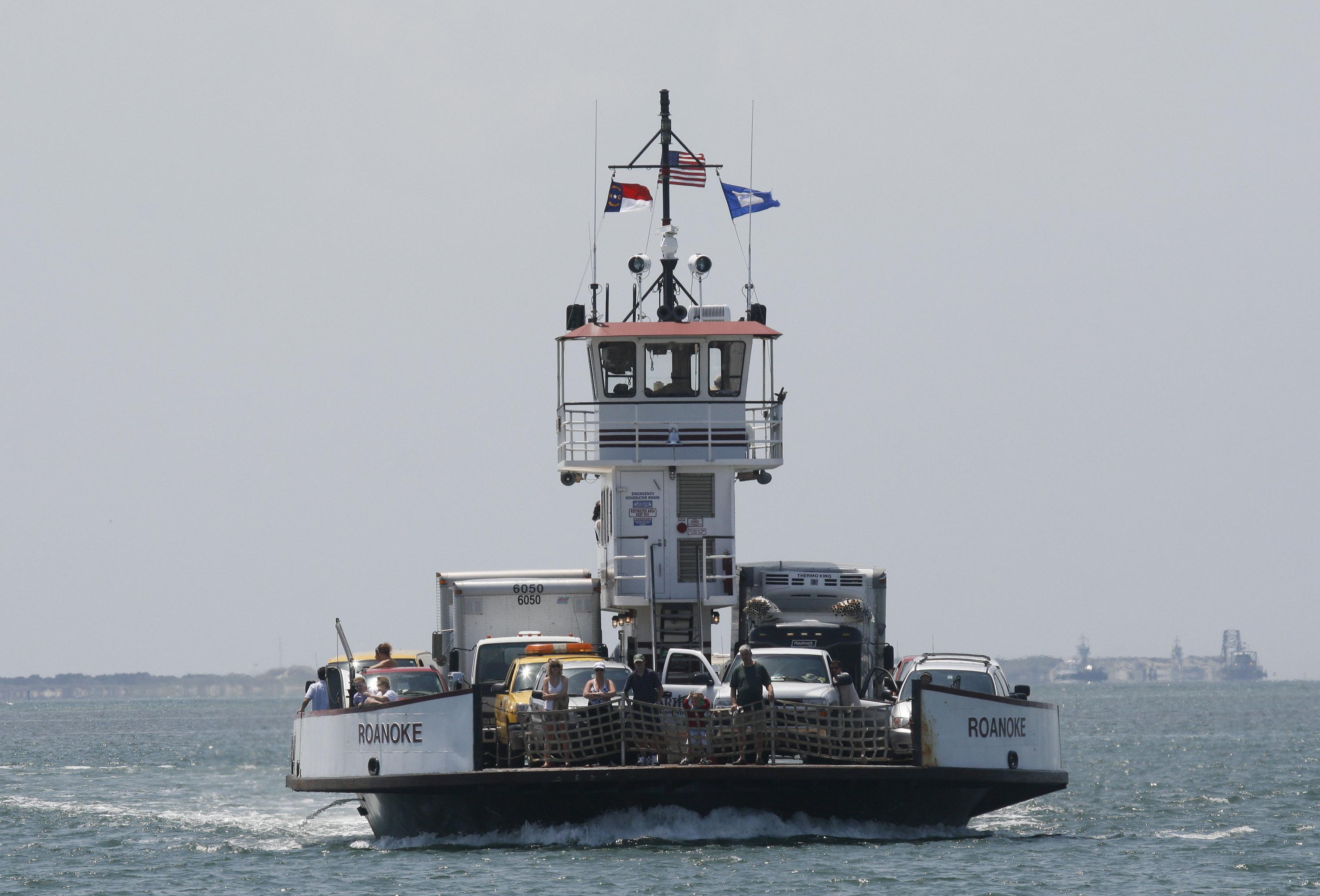 Hatteras Class ferry Roanoke from Cape Hatteras to Ocracoke Island, North Carolina